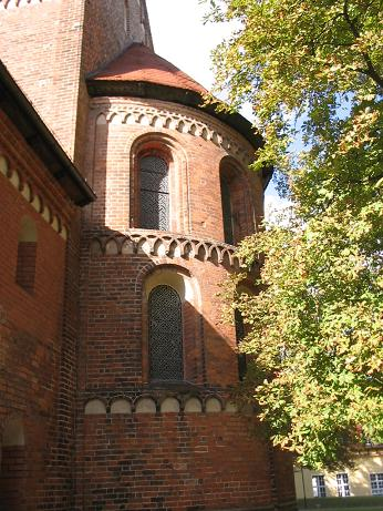 Apse of St. Marien church — of the Kloster Lehnin (Lehnin abbey). A German Brick Gothic era monastary in Landkreis Potsdam-Mittelmark, Brandenburg.